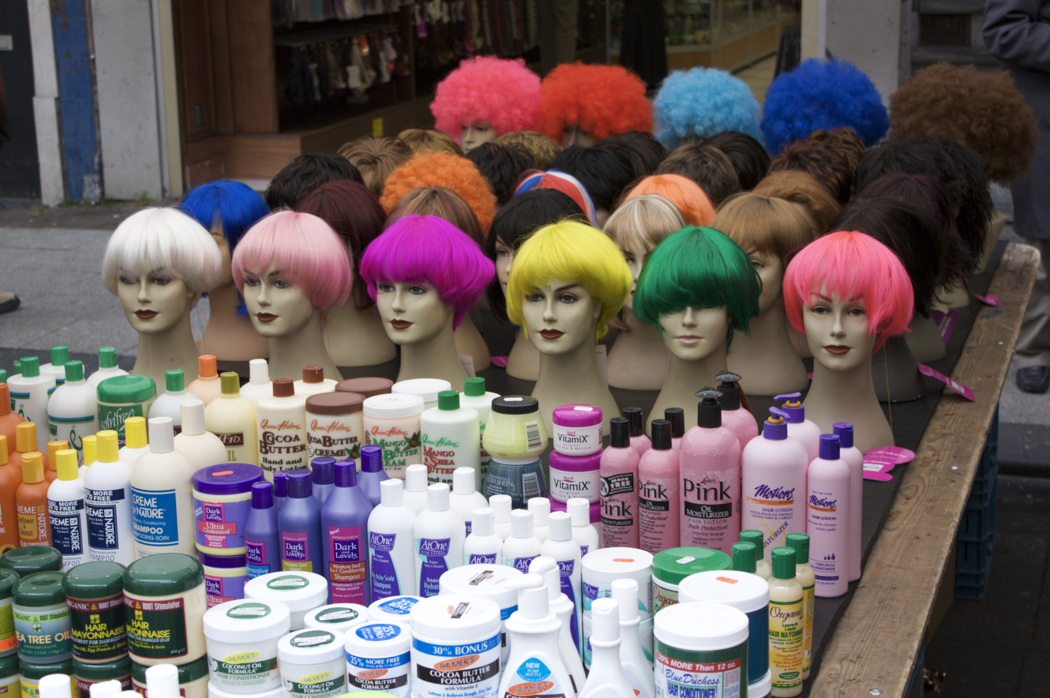 Wigs and a variety of artificial hair colours